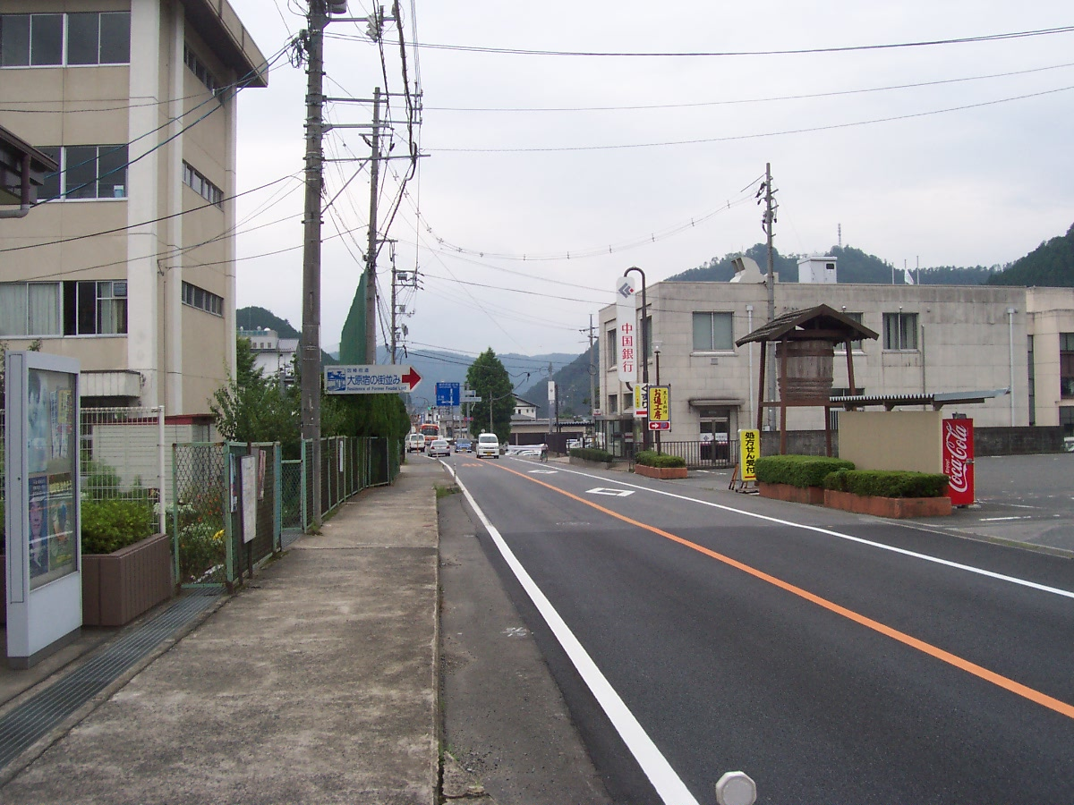 Foto of the main street in Ōhara, Mimasaka-city, Okayama-prefecture, Japan